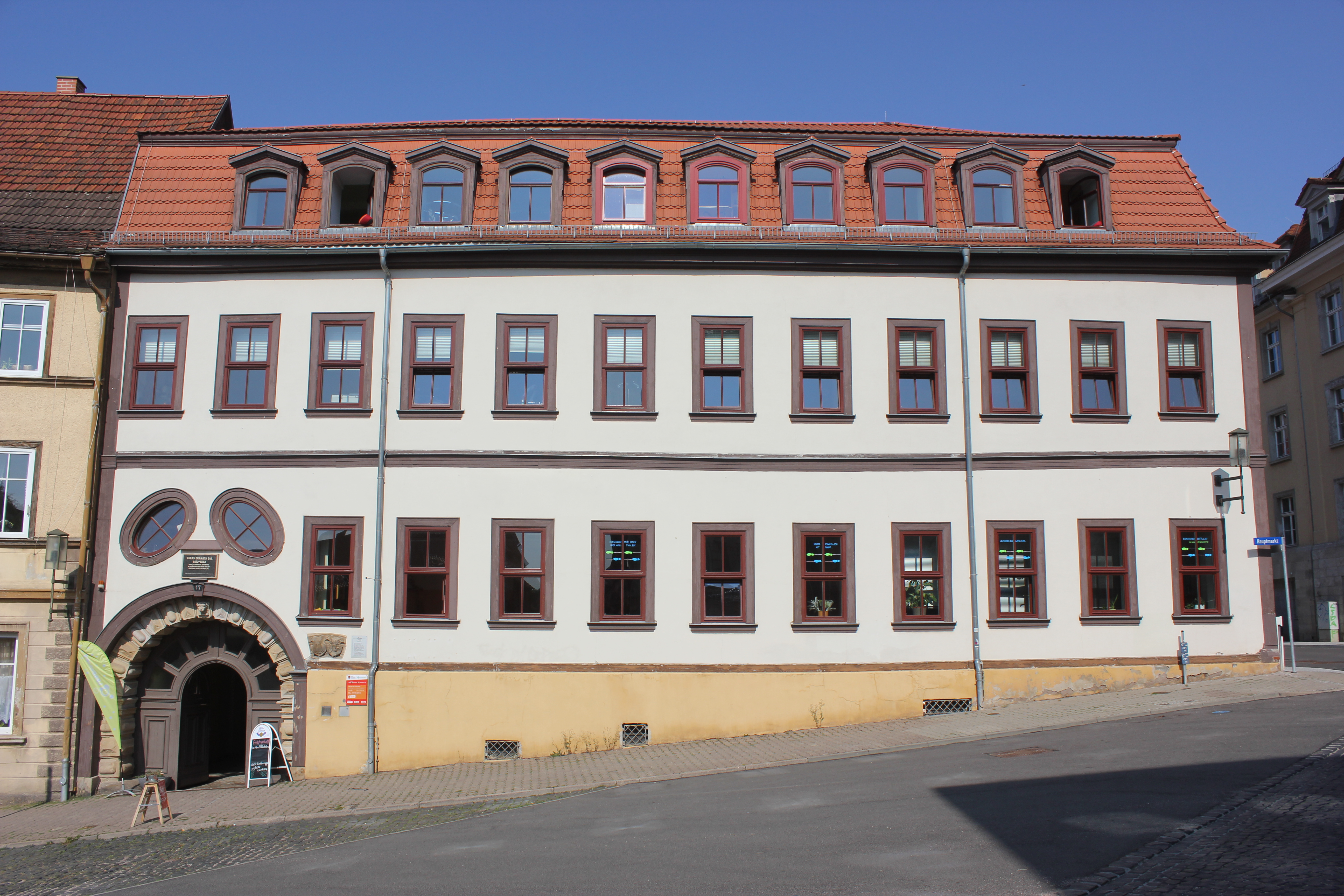 Gotha - the house at 17 Hauptmarkt